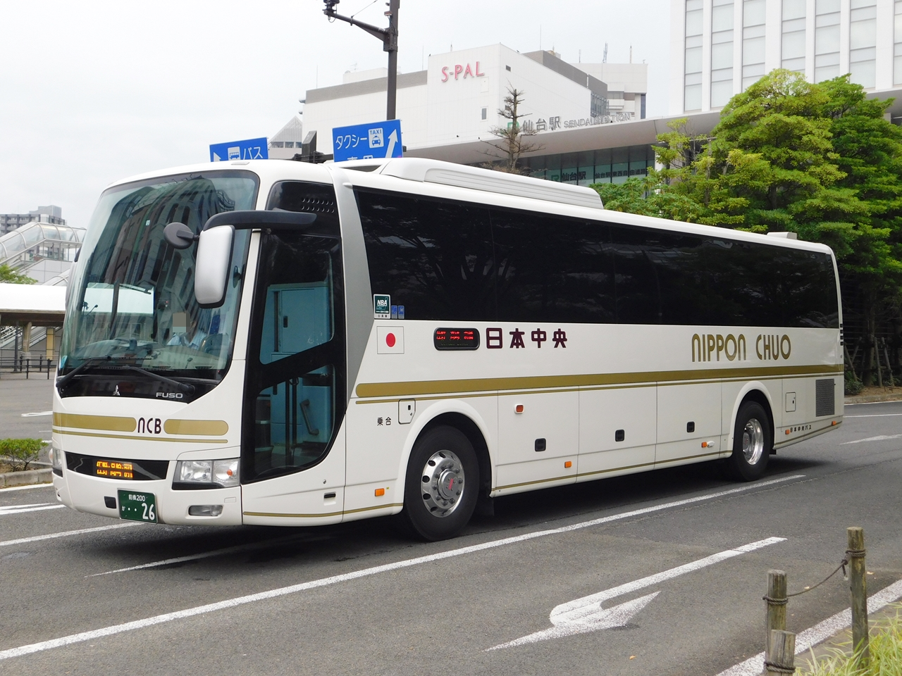 Nippon Chuo bus Mitsubishi Fuso Aero Ace (QTG-MS96VP)